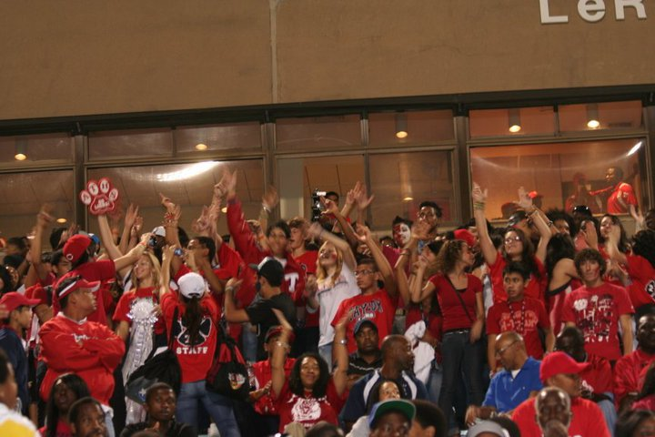 Redvolution Members Celebrating in the Stands following a Victory